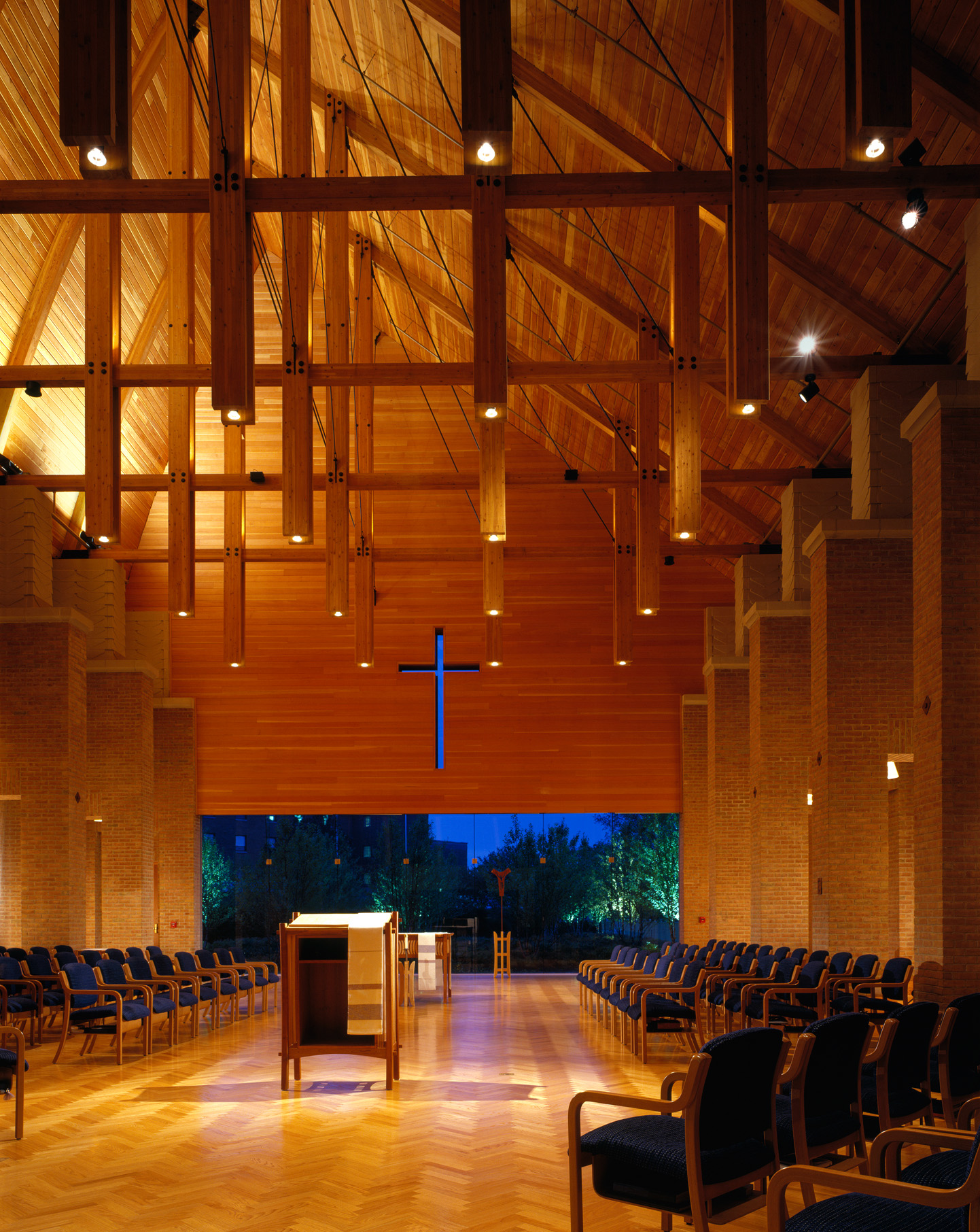 St. Mary of the Springs chapel recalls an inverted cathedral in which the buttresses are interior, supporting curved masonry walls and defining side aisles.